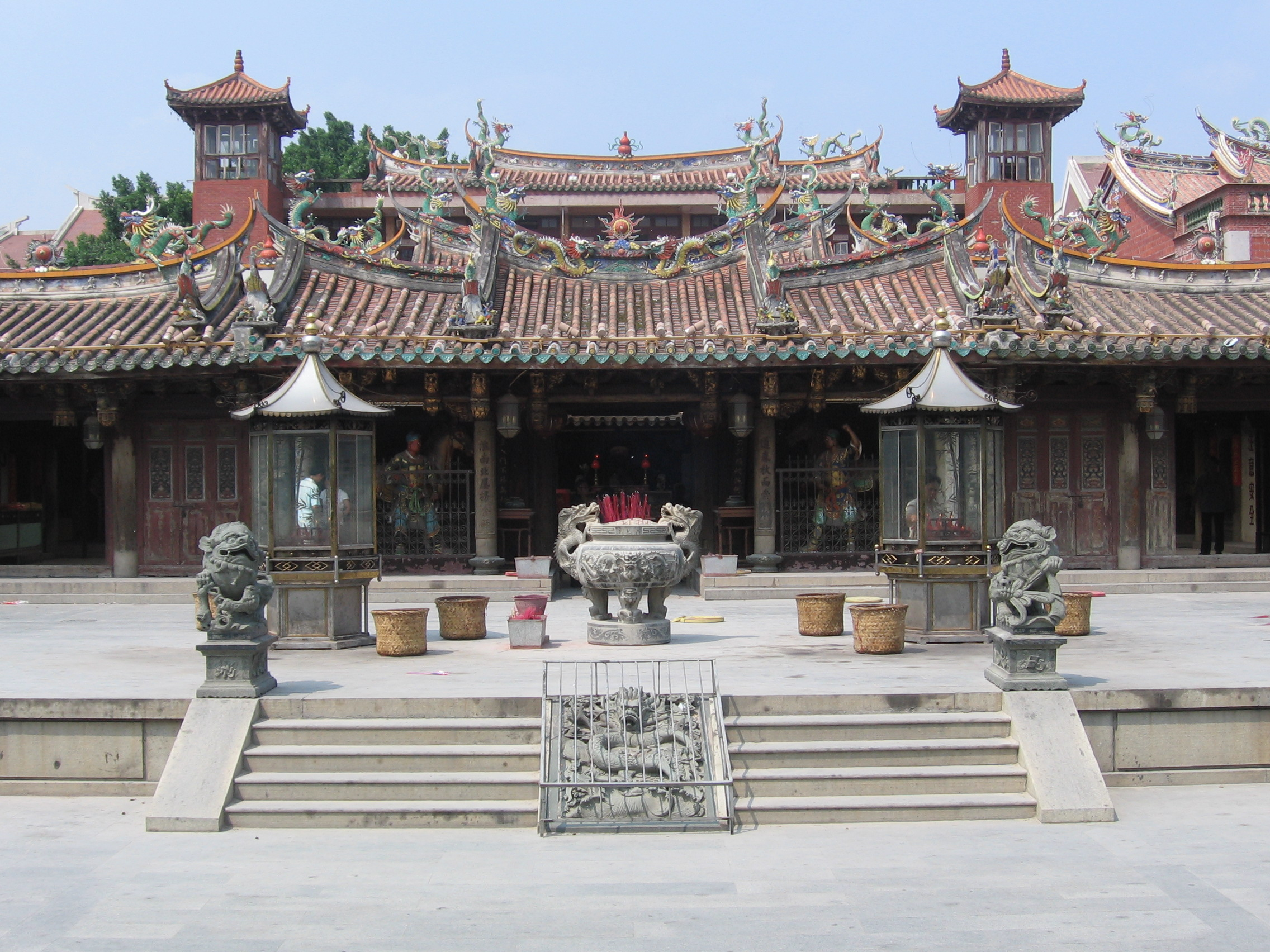 Guanyue temple (Temple of Guan Yu and Yue Fei) in Tonghuai，Quanzhou, Fujian, China.